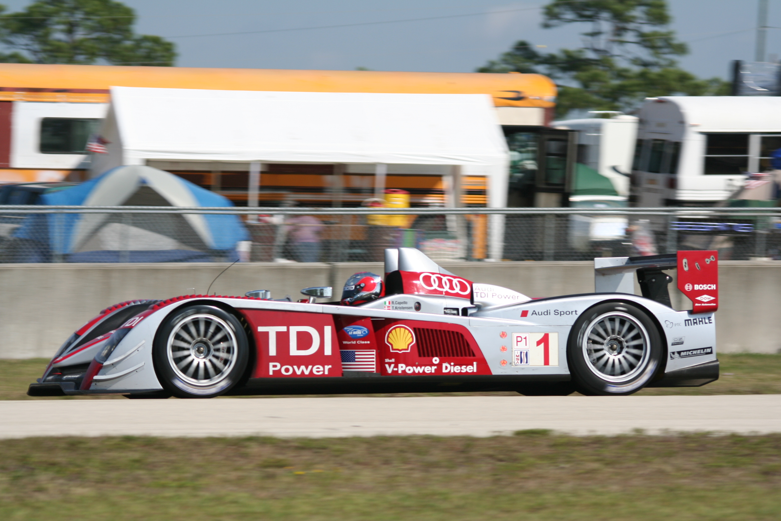 Shot by "The Daredevil" at the 2008 12 Hours of Sebring event